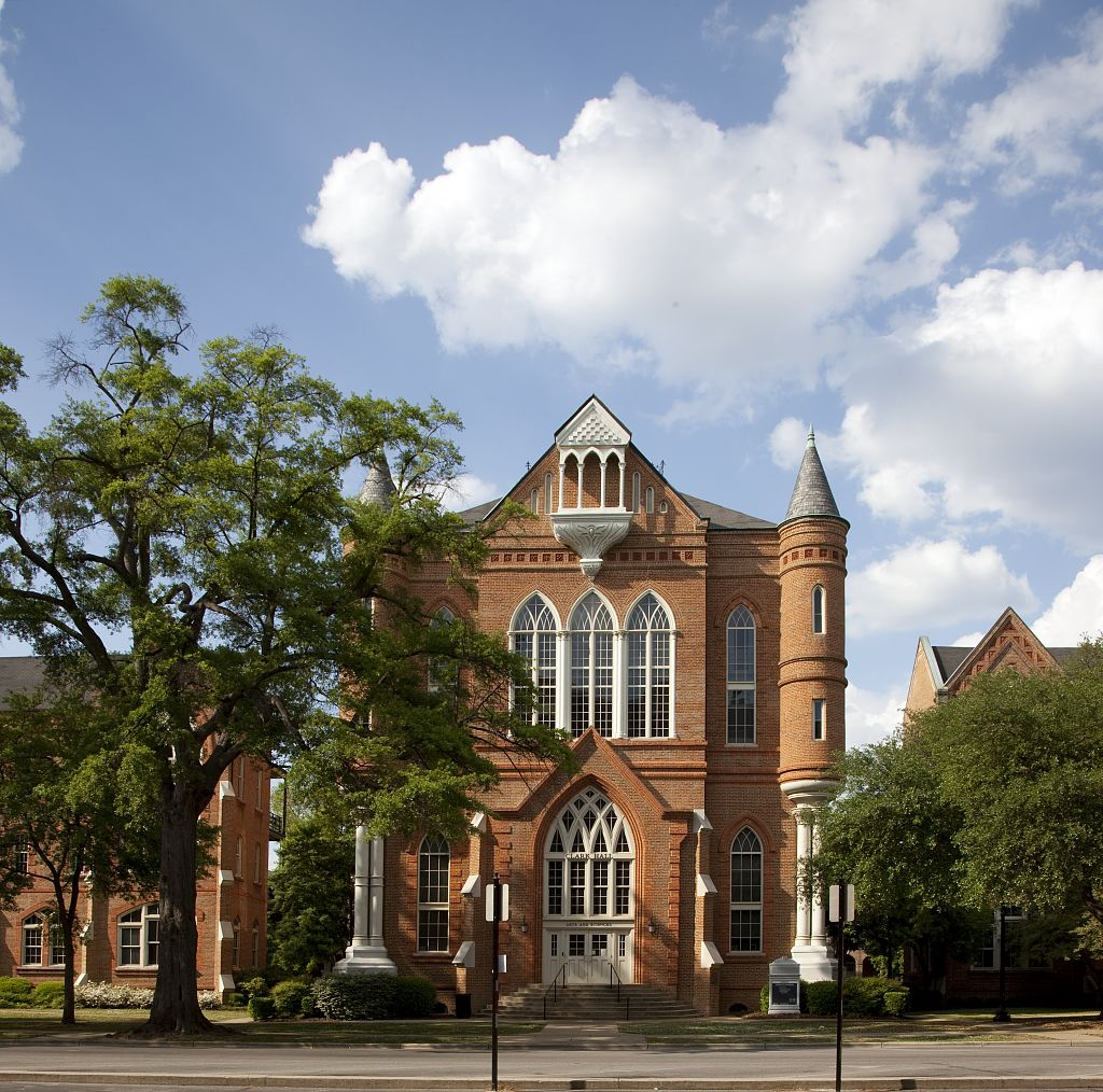 Clark Hall at the University of Alabama, Tuscaloosa, Alabama